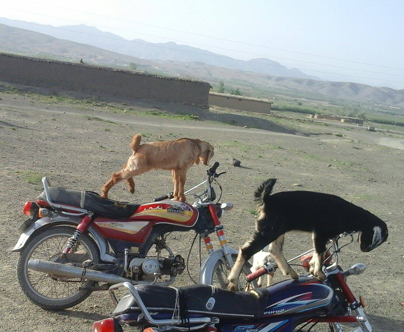 a pic